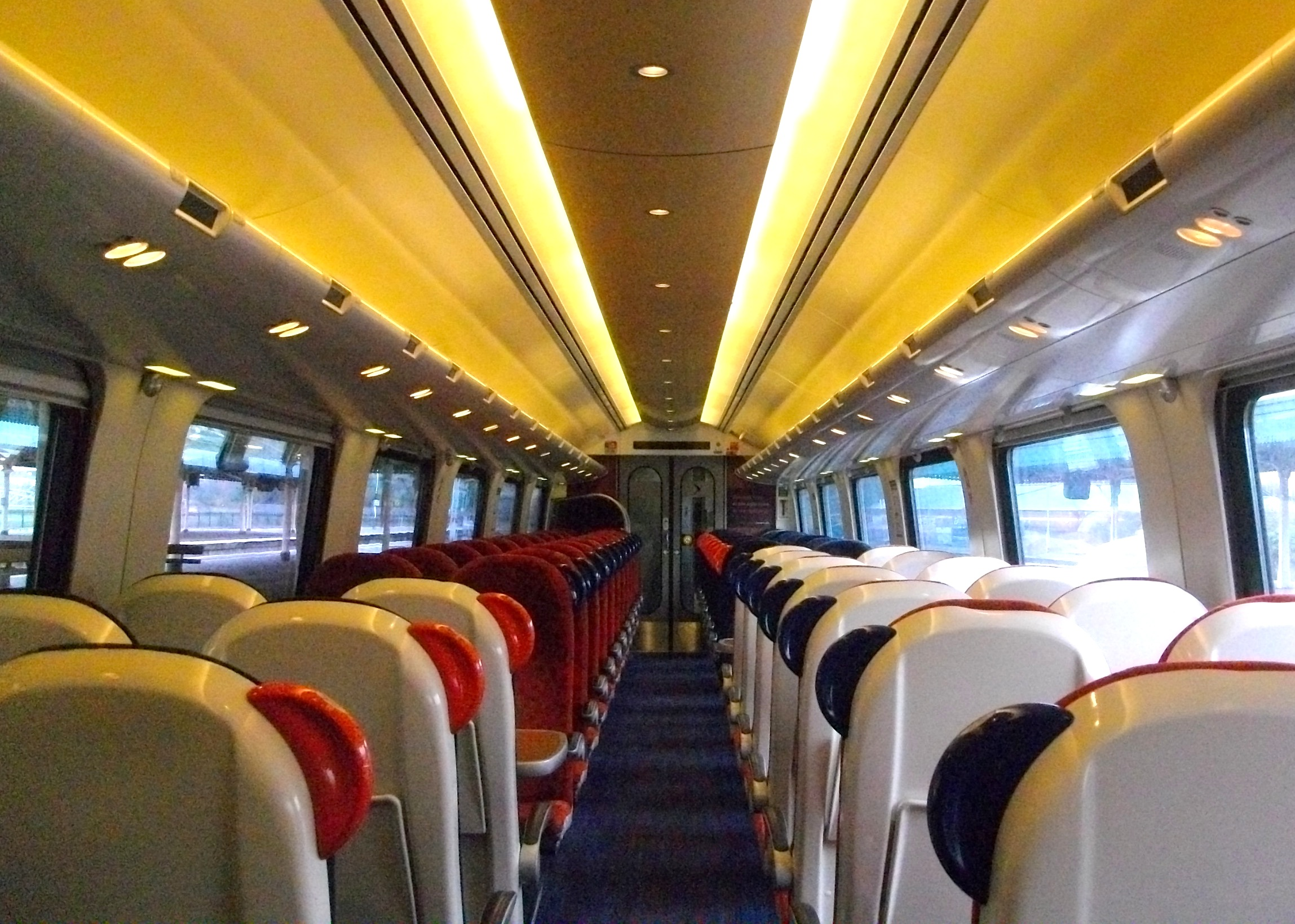 The interior of Standard Class in a MSO vehicle aboard a Cross Country Class 221 'Super Voyager' DEMU train